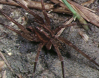 male Trochosa aquatica from Okinawa.